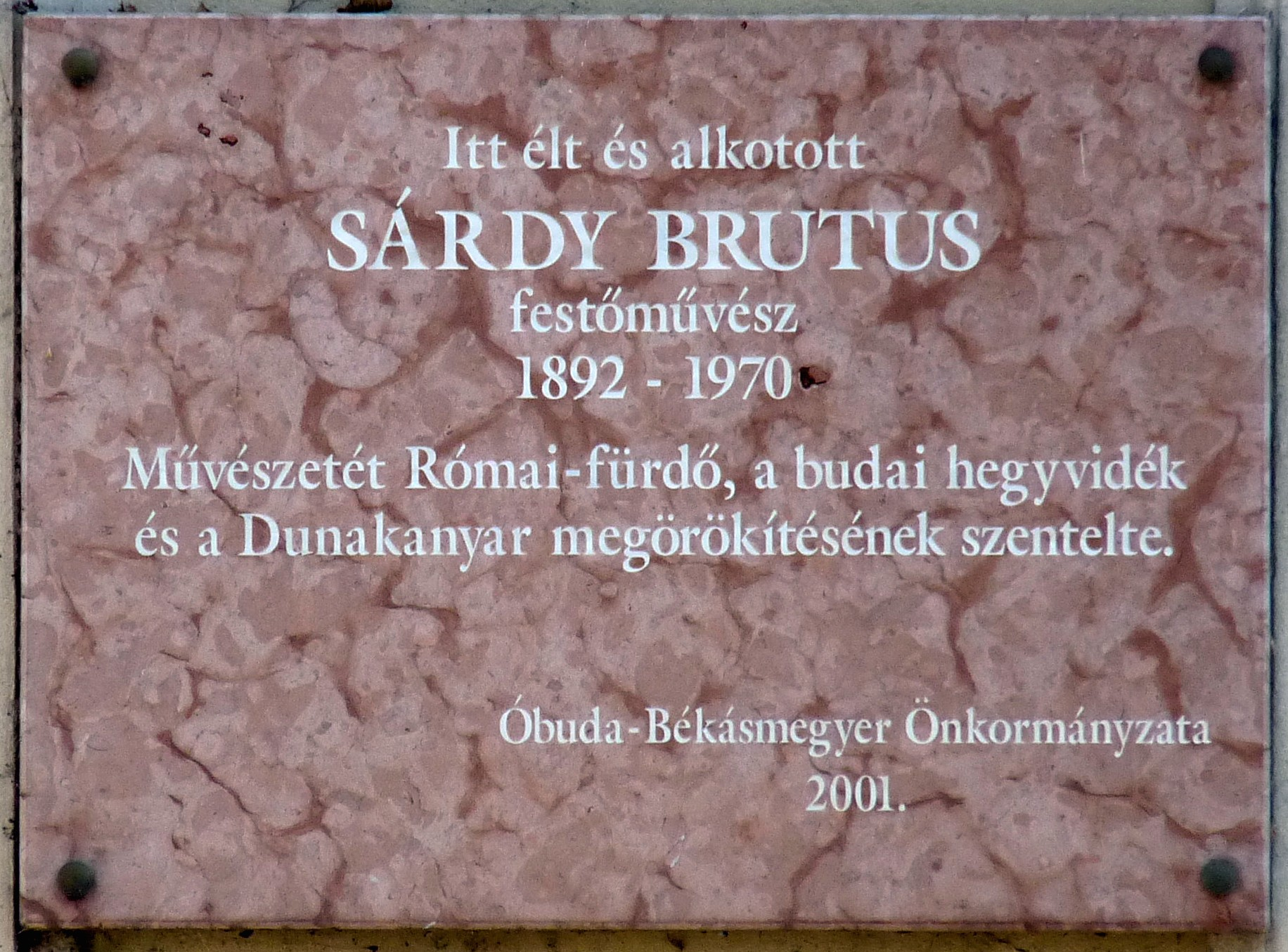 Commemorative plaque to Brutus Sárdy (1892–1970) Hungarian painter and restorer who has devoted his talents to perpetuate the natural beauty of Rómaifürdő, the Buda Hills and the Danube Bend. It is affixed to the front of his former home. (Budapest, District III, Dósa Street Nr 17)